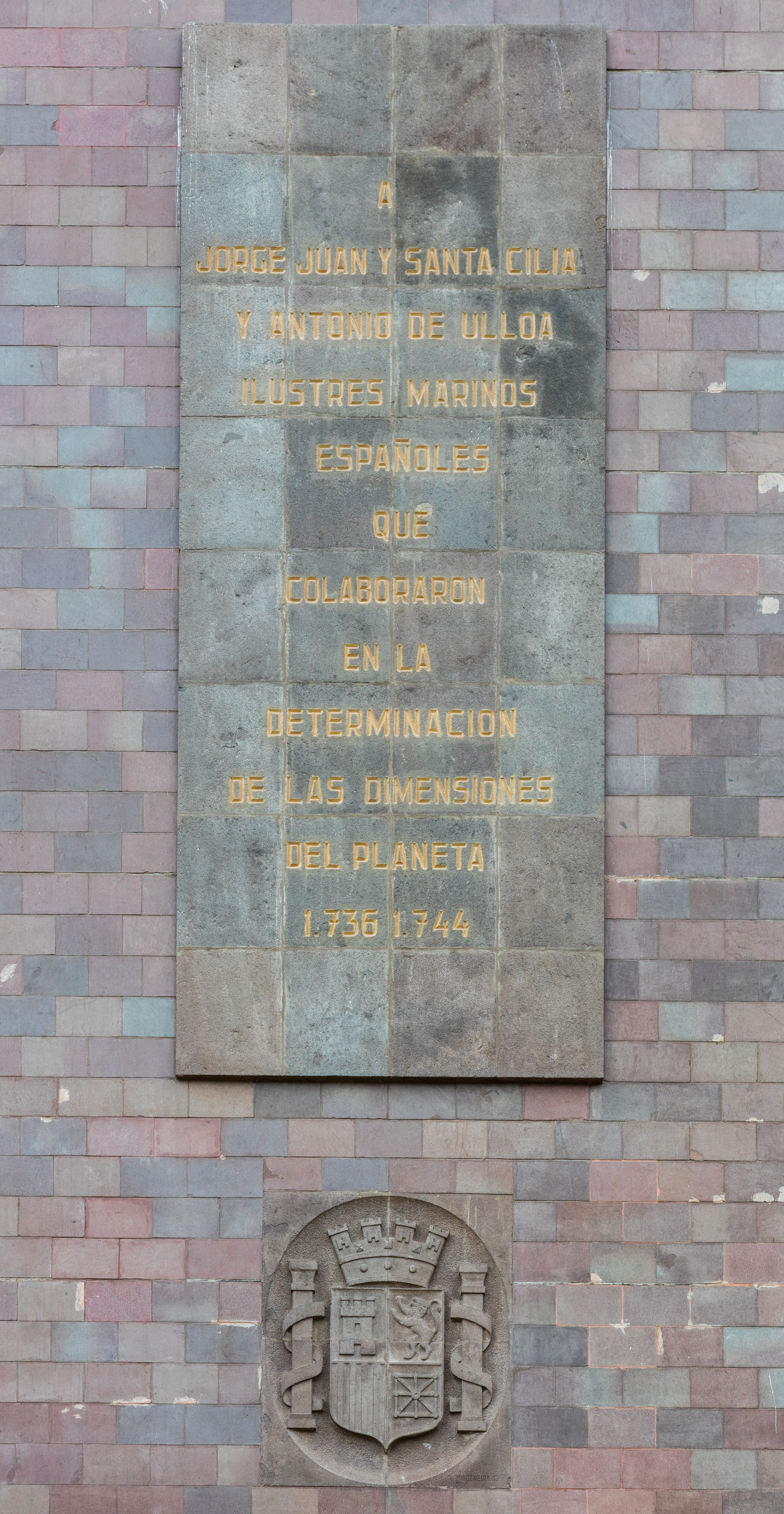 Mitad del Mundo, Quito, Ecuador